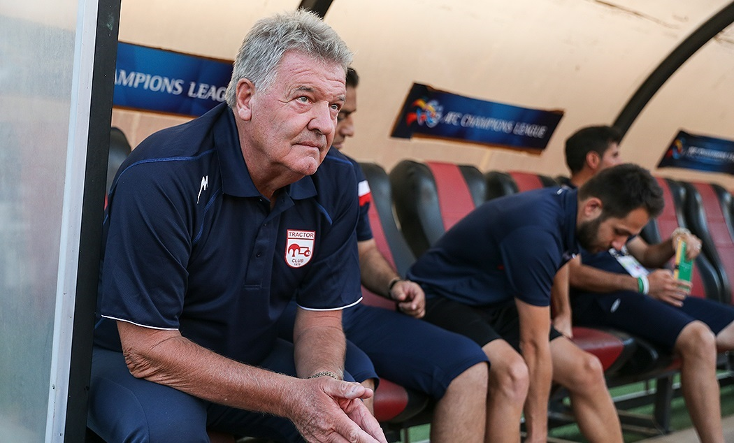 John Toshack